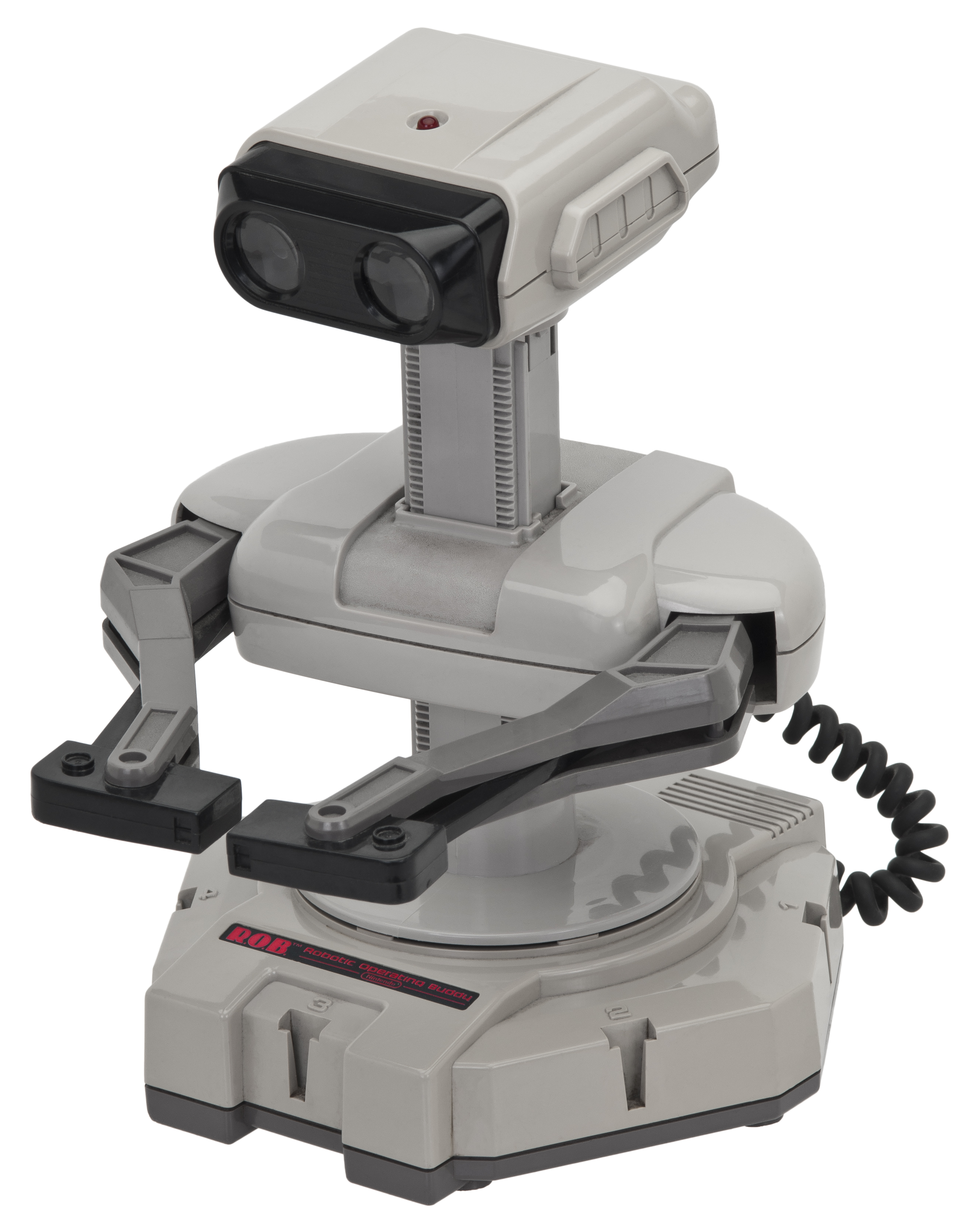 R.O.B., or Robotic Operating Buddy. A barely supported accessory for the original Nintendo that was introduced in 1985.